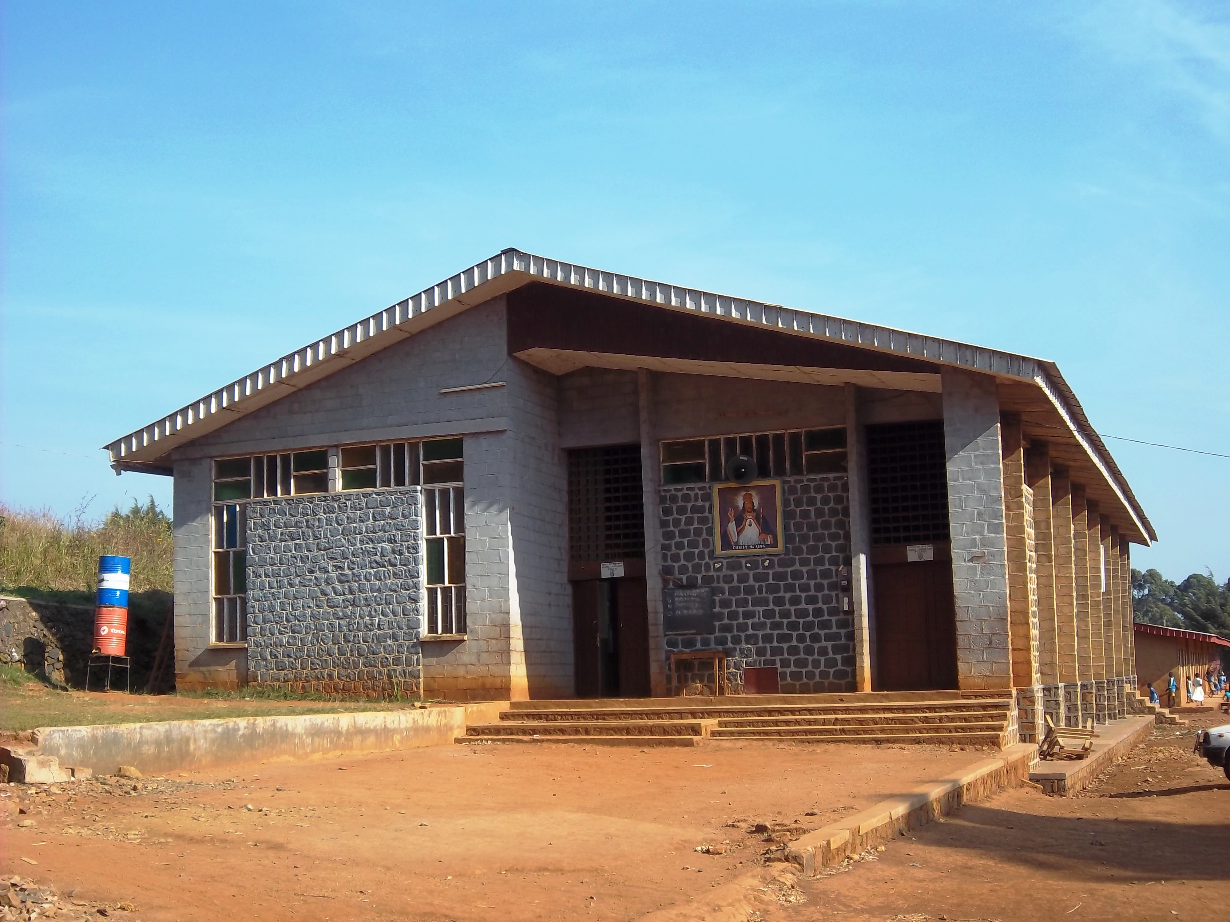 And this one na the church for Nkambe town.